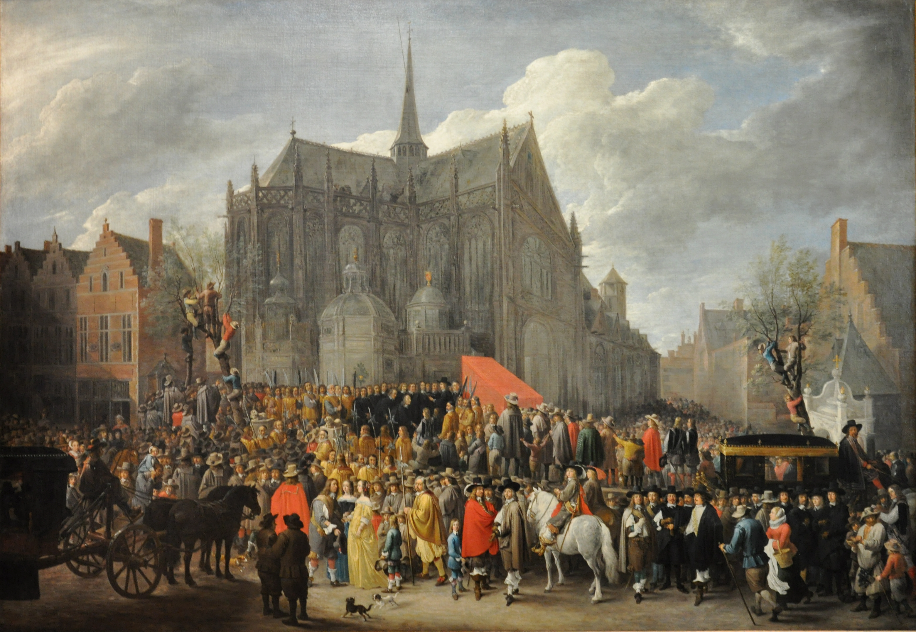 The Popinjay shooting in Brussels, 1652